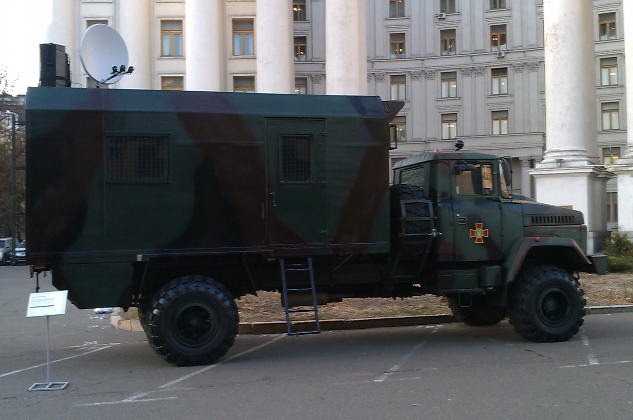 KrAZ-5233 (club and print shop) at the exhibition «The Power of unconquered» on the Day of the defender of Ukraine